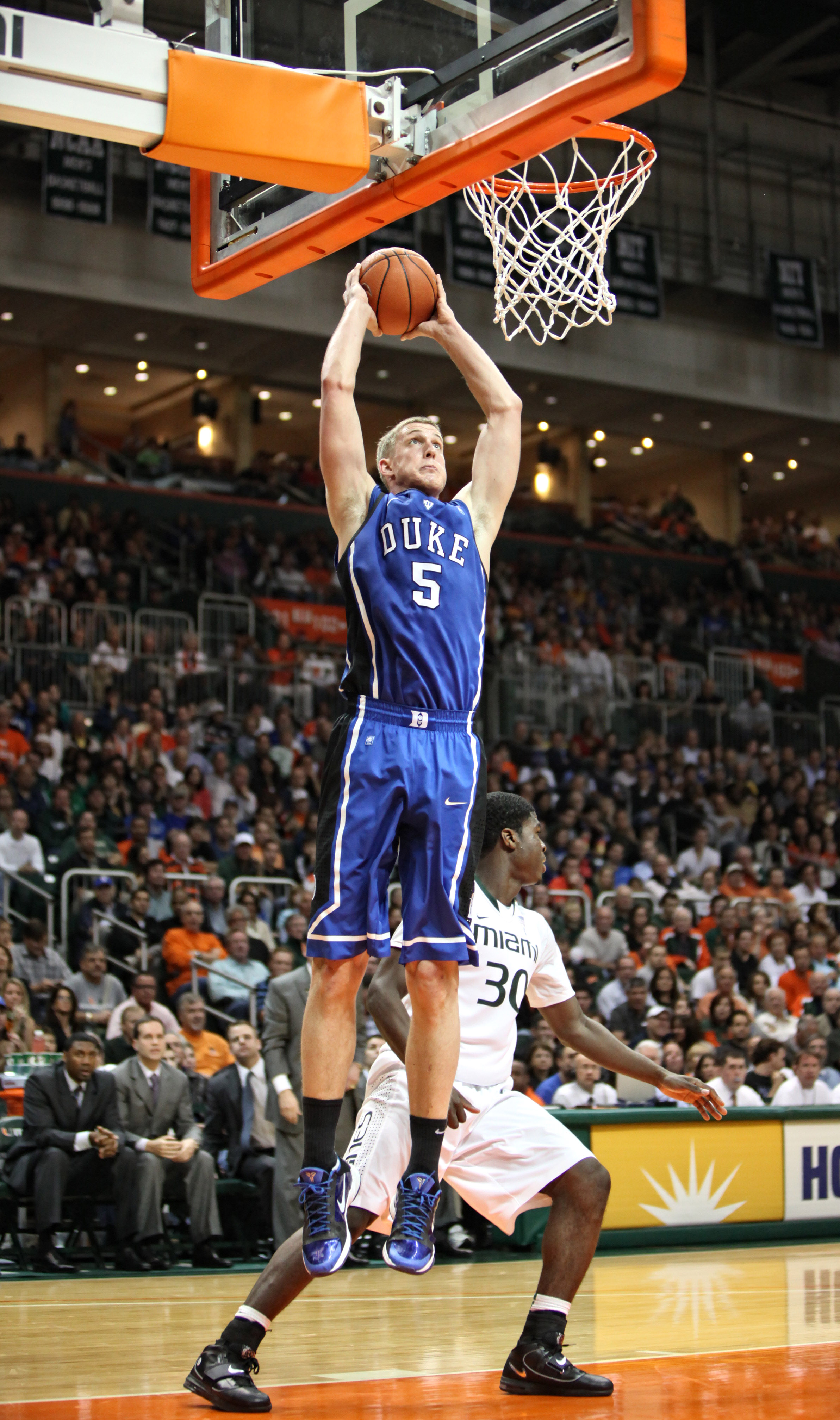 FEB. 13, 2011-Coral Gables, Florida, U.S - Duke Blue Devils Forward Mason Plumlee (5) drives to the hoop during the game between Miami and Duke at Bank United Center in Coral Gables, Florida.The Duke Blue Devils defeated the Miami Hurricanes 81-71